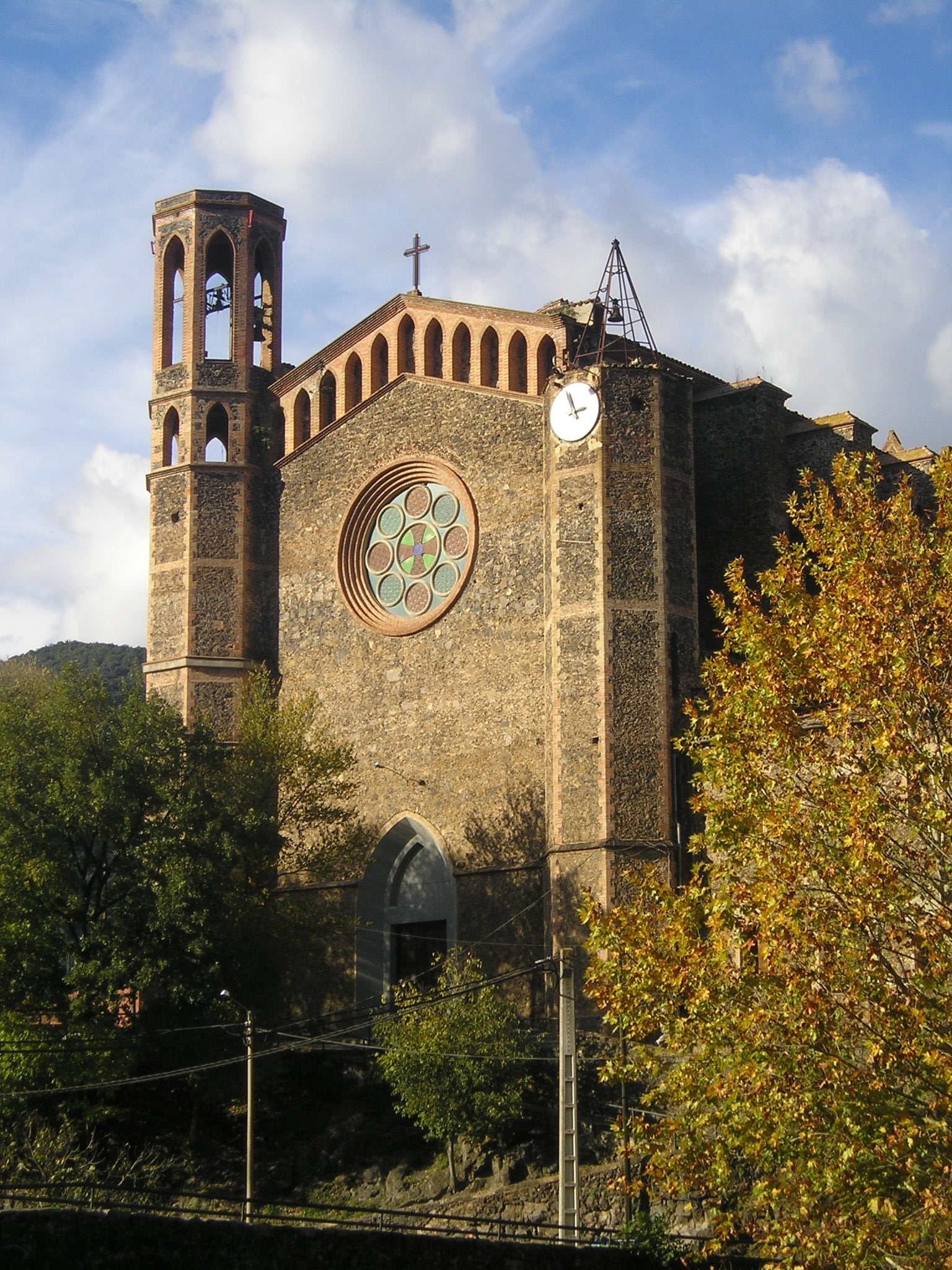 Church in Sant Joan les Fonts (Catalonia)